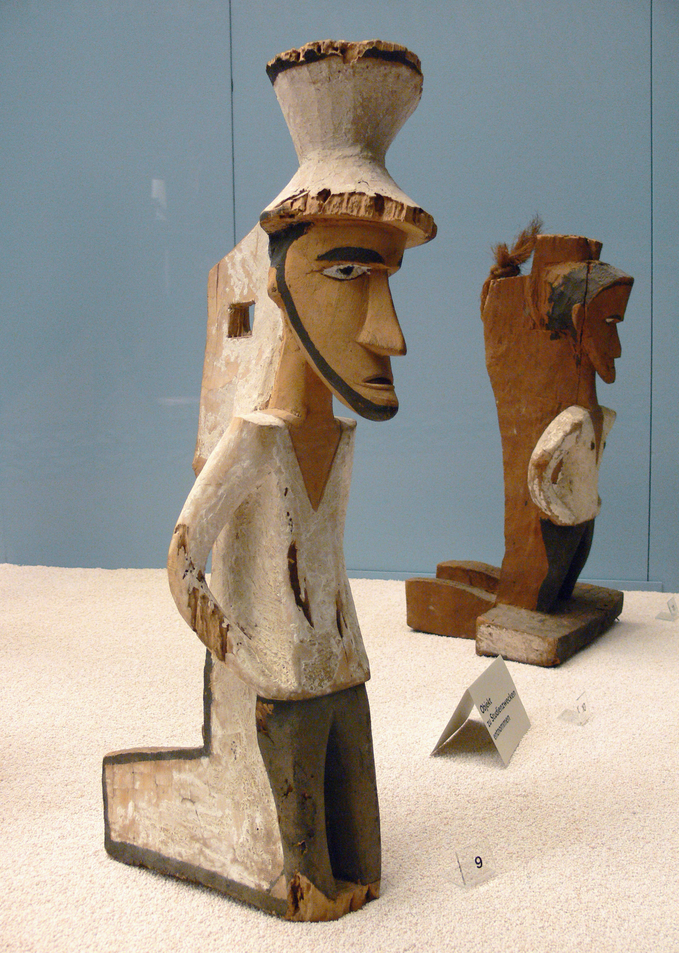 Statue of a matrose, as part of a window hook; wood, rope; Yap, Caroline Islands; South Seas Department, Ethnological Museum, Berlin, Germany (Grösser collection, 1897/1898).